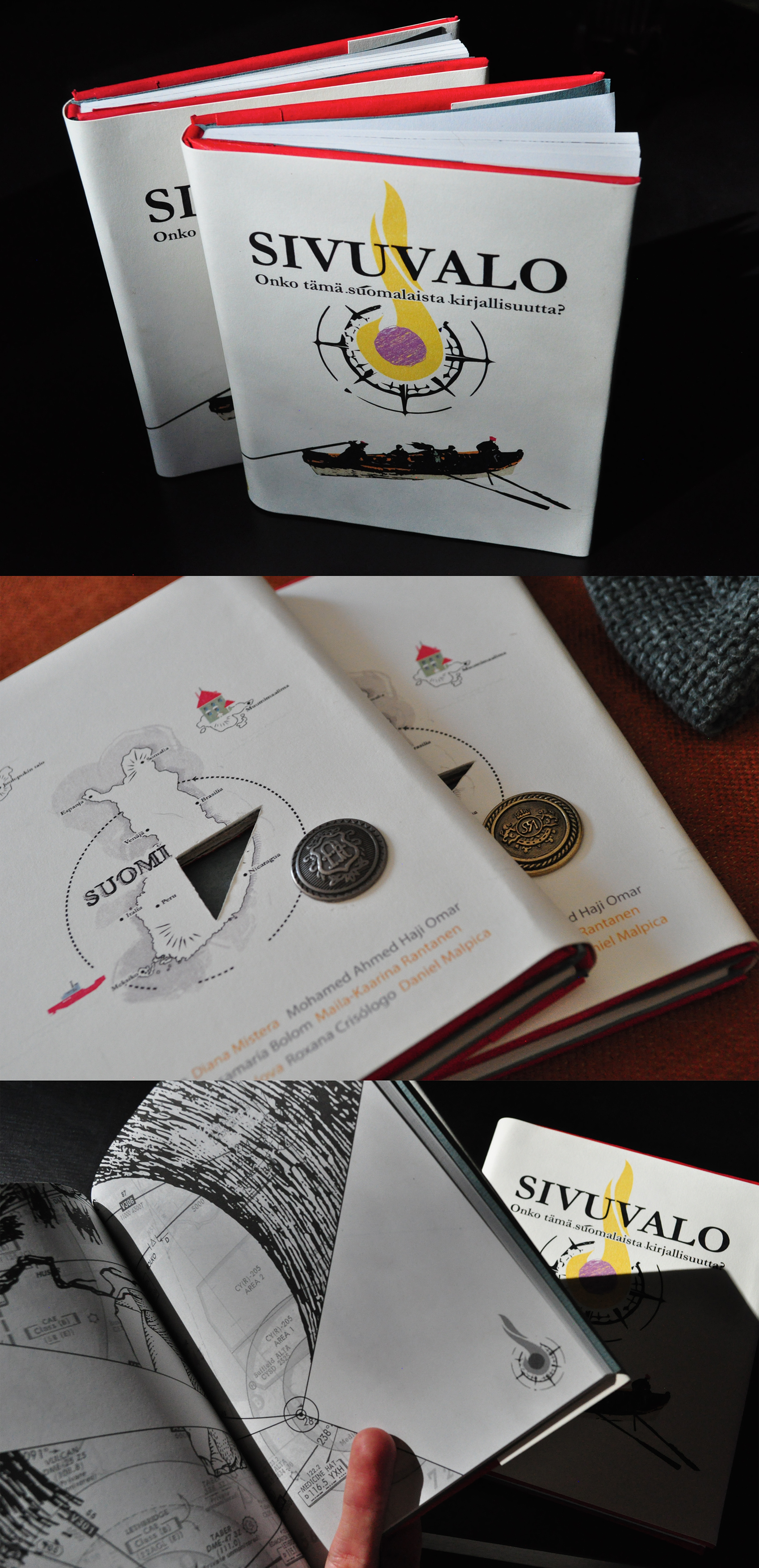 Book co-edited by Radiador Magazine